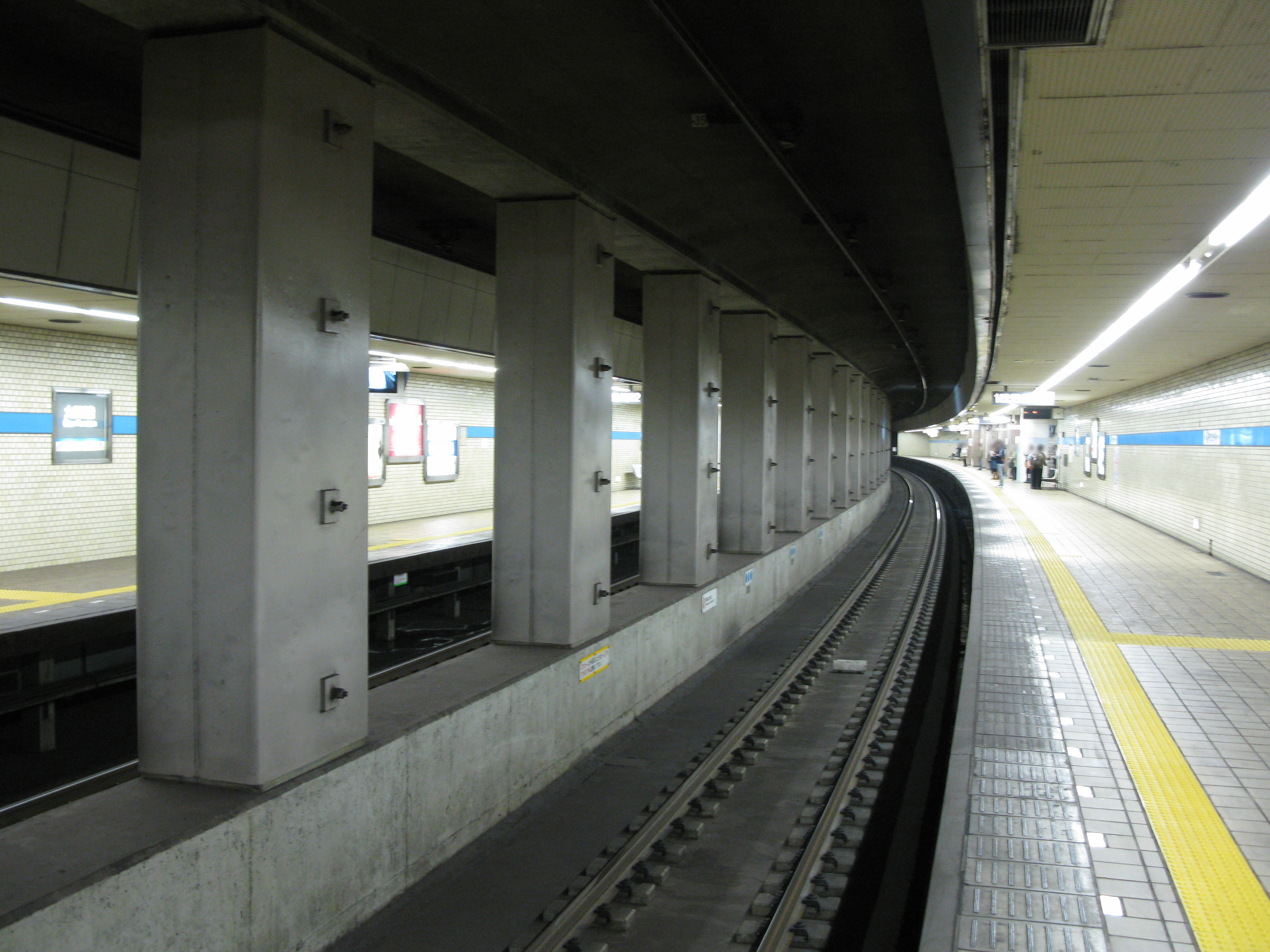 Ōsu Kannon Station platform (Nagoya Municipal Subway Tsurumai Line)